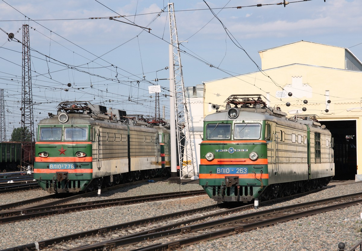 electric locomotive VL10-263 & VL10u-778 in Tayga.